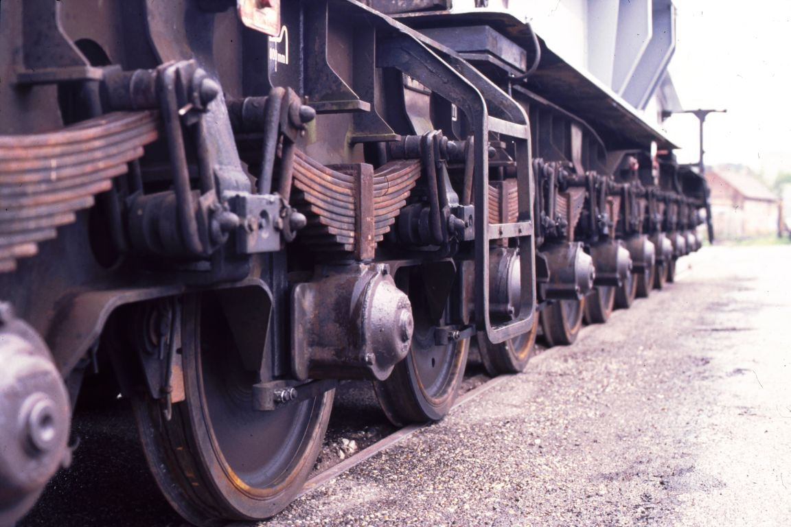 Axles of Deutsche Bahn AG heavy-load car, class Uaai 687.9 number 9960005 seen in Heilbronn Süd.